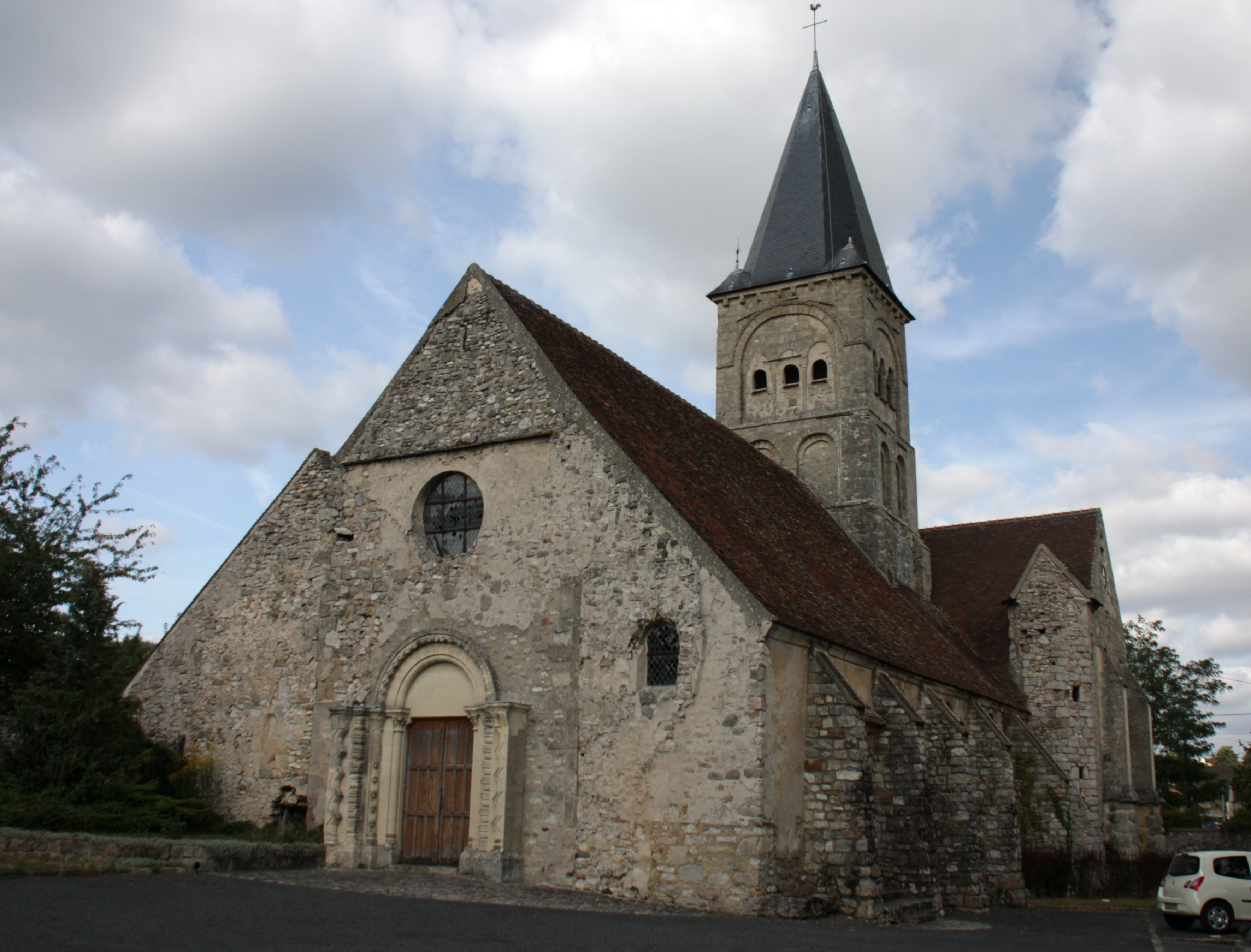 Saint Felix church in Azy-Sur-Marne, France. .